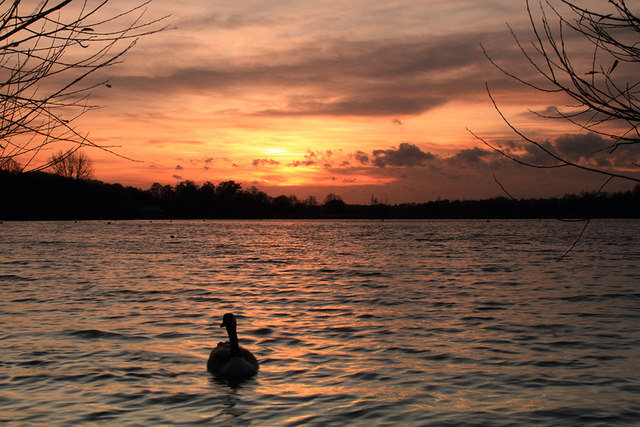 The Aquadrome, Bury Lake The Aquadrome, Bury lake, Rickmansworth